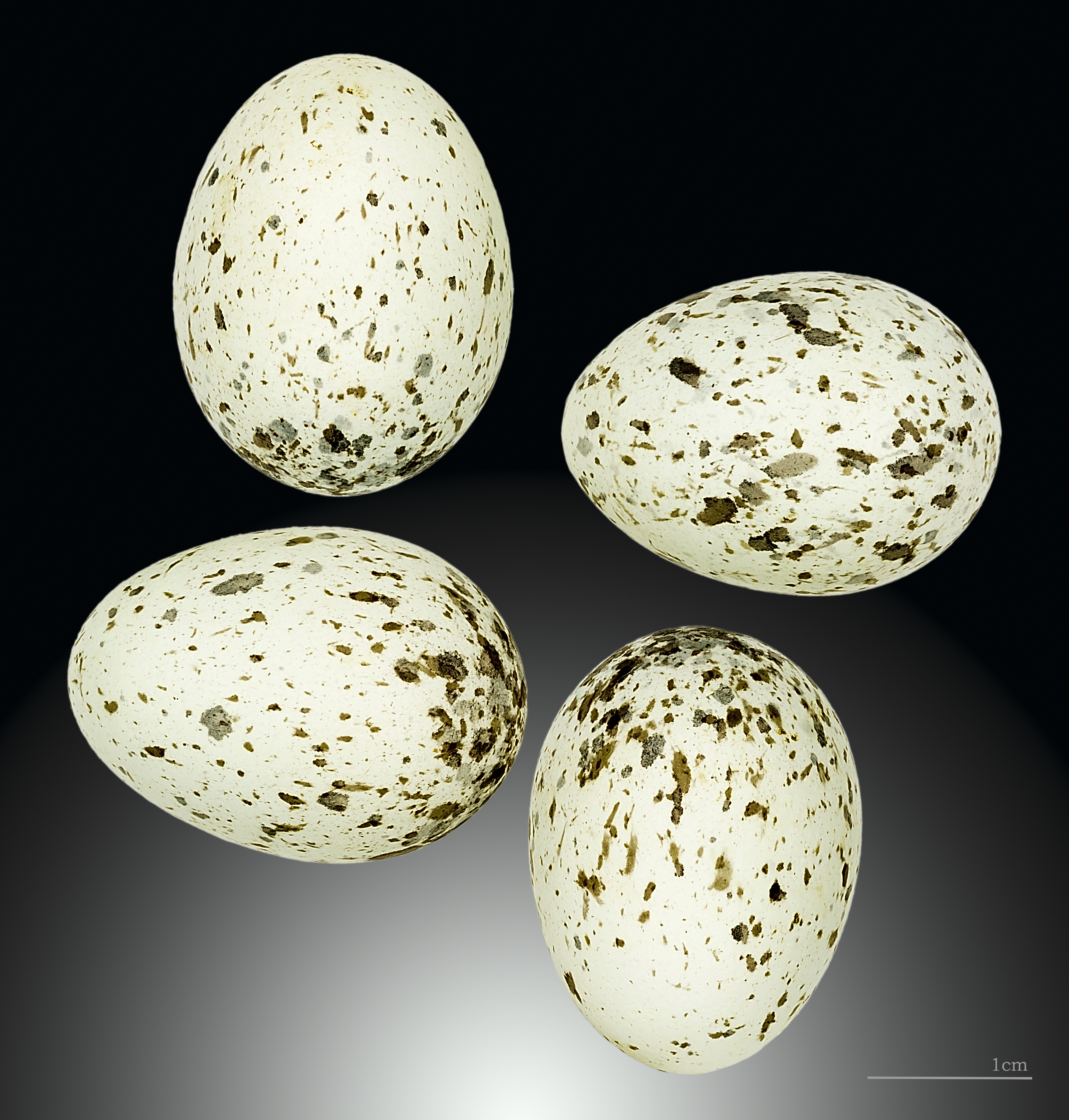 Egg of Spanish Sparrow. Collection of René de NauroisJacques Perrin de Brichambaut.